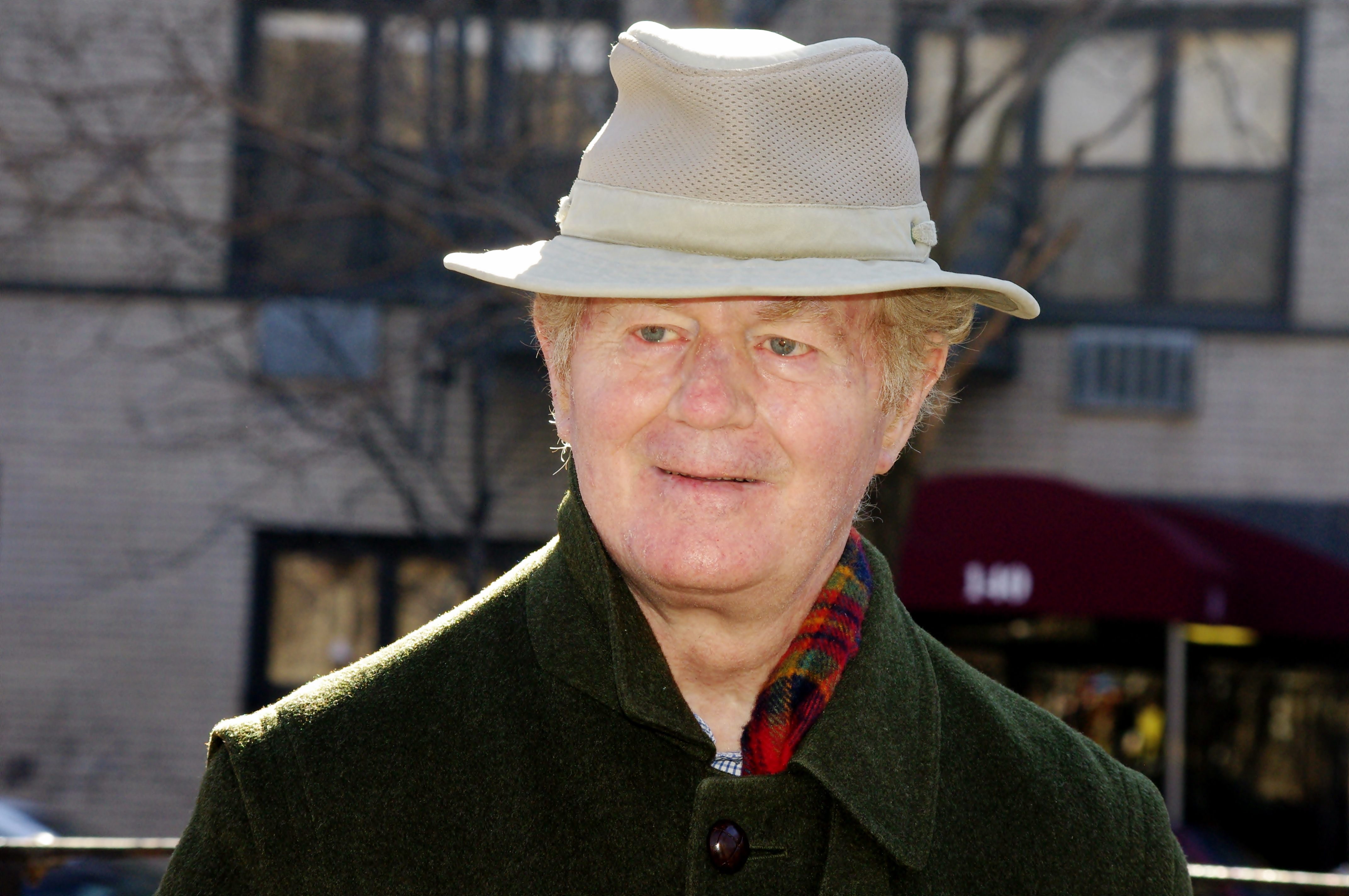 Writer and Professor Jonathan Schell at Occupy Town Square in Tompkins Square Park, in the East Village of Manhattan in New York.